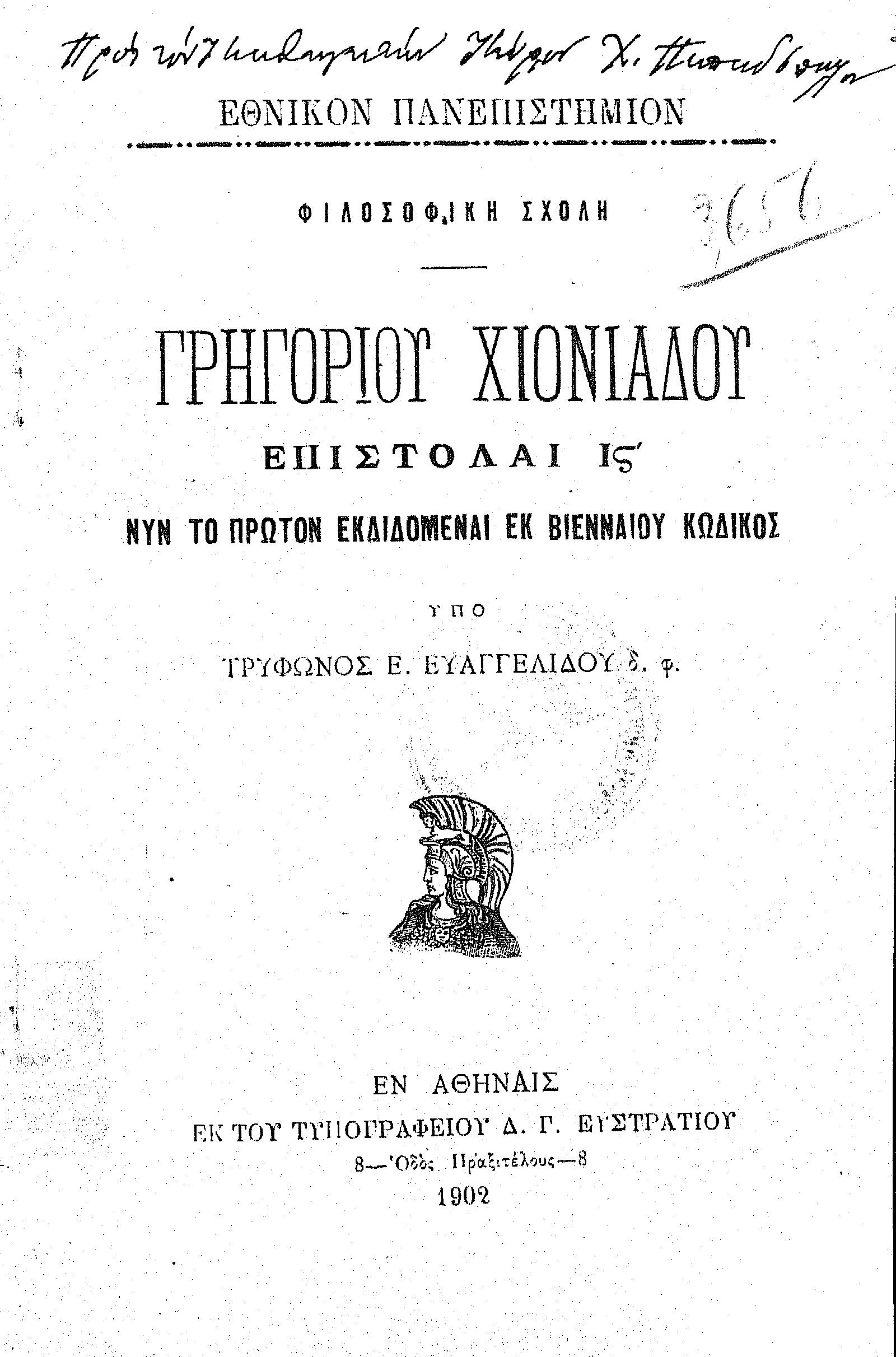 Epistolae of Gregory Chioniades, Athens 1906 edition by Trifon E. Evagelides. Gregory Choniades (Choniates, Chioniades) (died 1320) was a Byzantine Greek astronomer. He travelled to Persia where he learnt Persian mathematical and astronomical science which he introduced into Byzantium upon return from Persia[1] and founded an astronomical academy at Trebizond. Choniades also served as Orthodox Bishop in Tabriz.